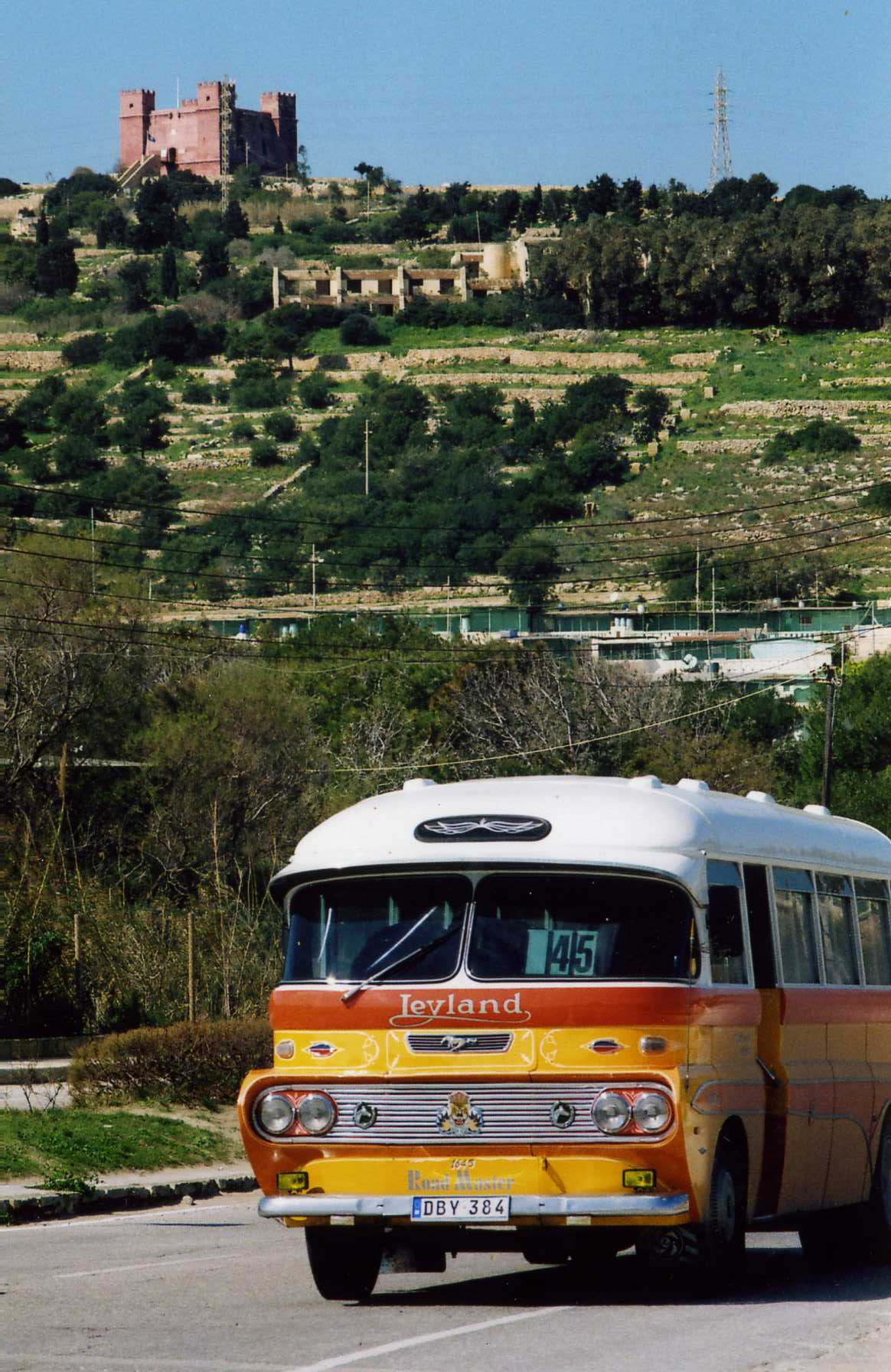 Behind DBY 384, the Danish holiday village and the Red Tower. Taken on Kodak 200 print film with Pentax K1000 manual camera, 125mm Pentax lens.